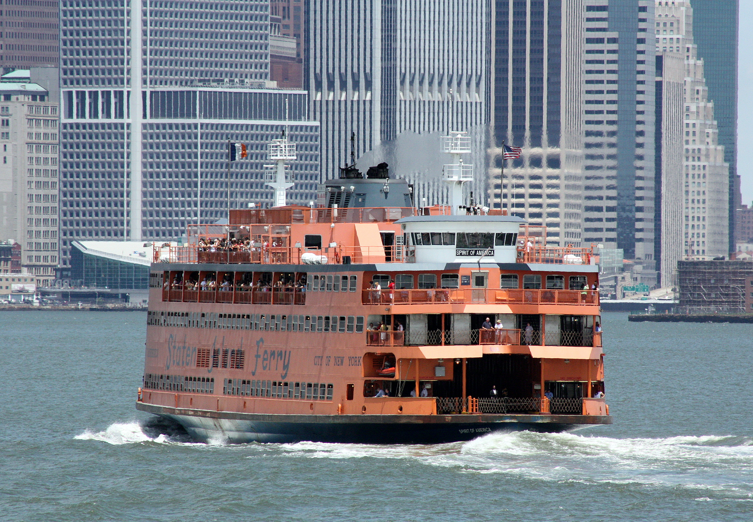 Spirit of America, Staten Island Ferry.